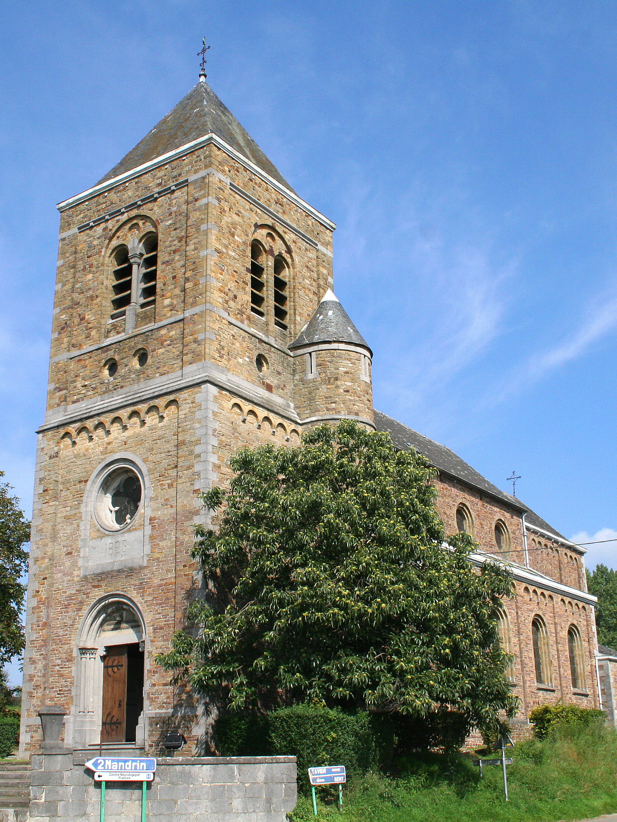 Fraiture (Belgium), the Saint Remacle’s church.